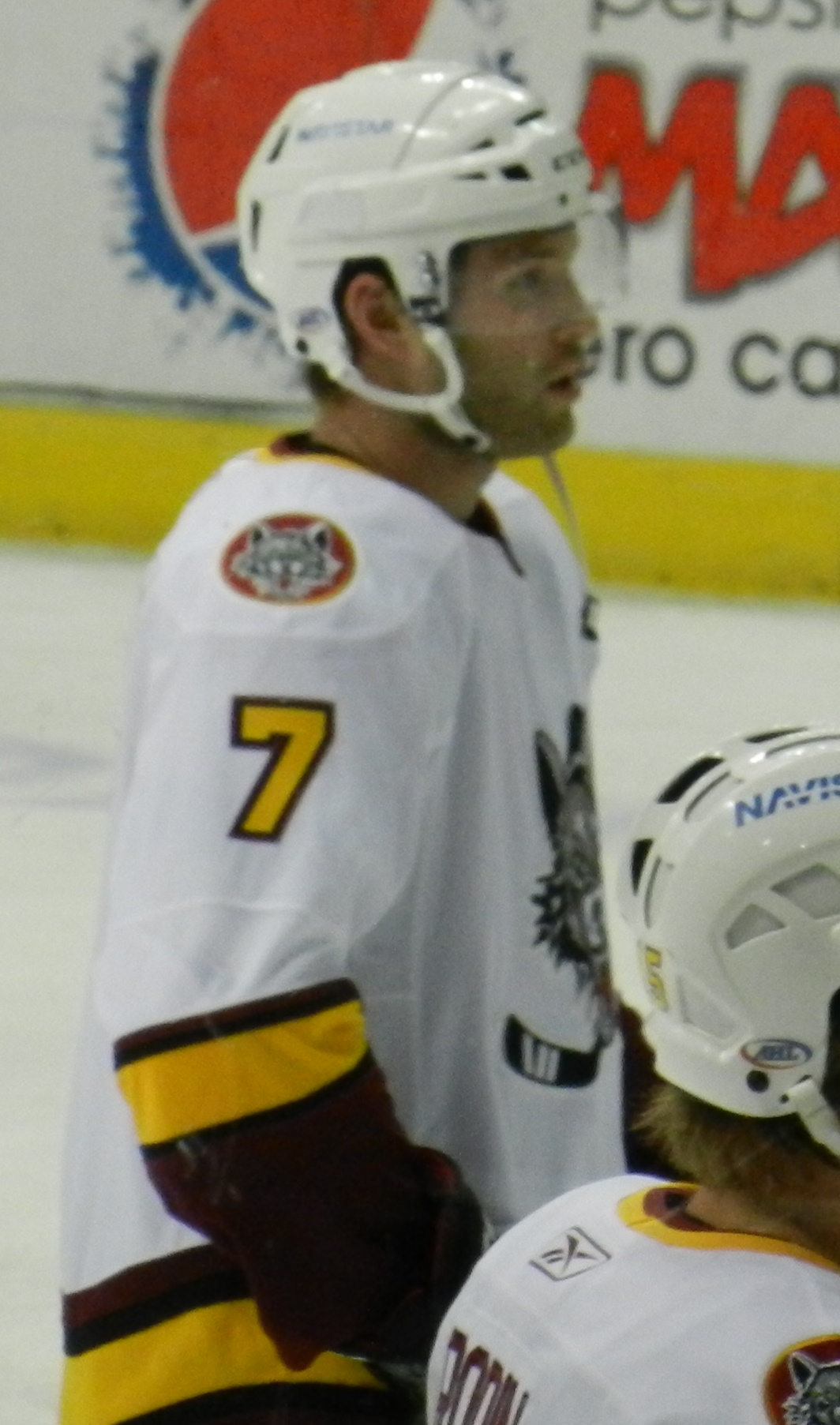 Ryan Parent playing for the Chicago Wolves during the 2011-12 AHL season